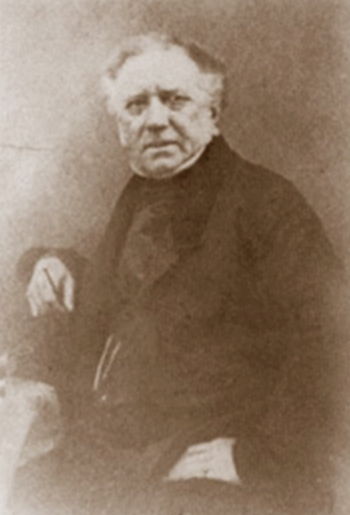 photo of the artist